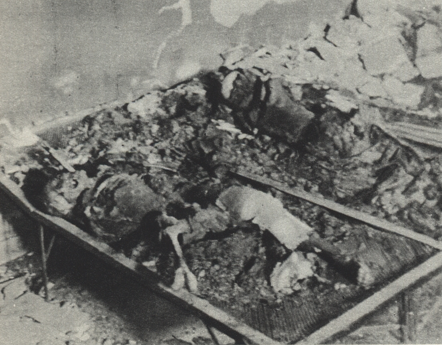 Remains of Warsaw insurgents – murdered and burned by SS troops at hospital beds after the fall of Warsaw’s Old Town (2nd September 1944). This photo was taken in Spring 1945 in former military hospital at 15 Długa Street.